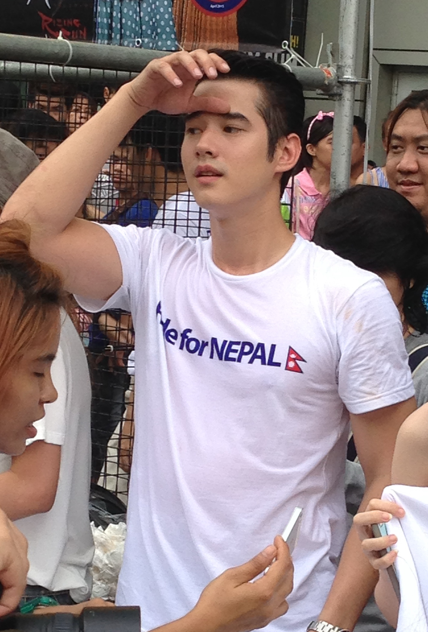 Mario Maurer at Ride For Nepal.